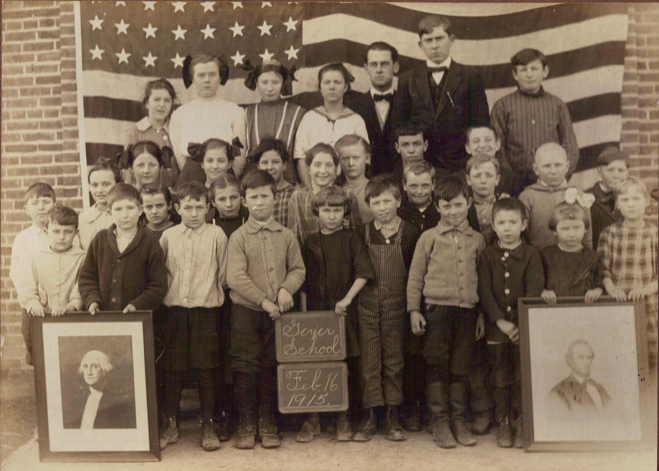 A class photo of a 1915 class at the Geyer School in Geyer, Ohio. One can contact for further information (e.g., the students' names).